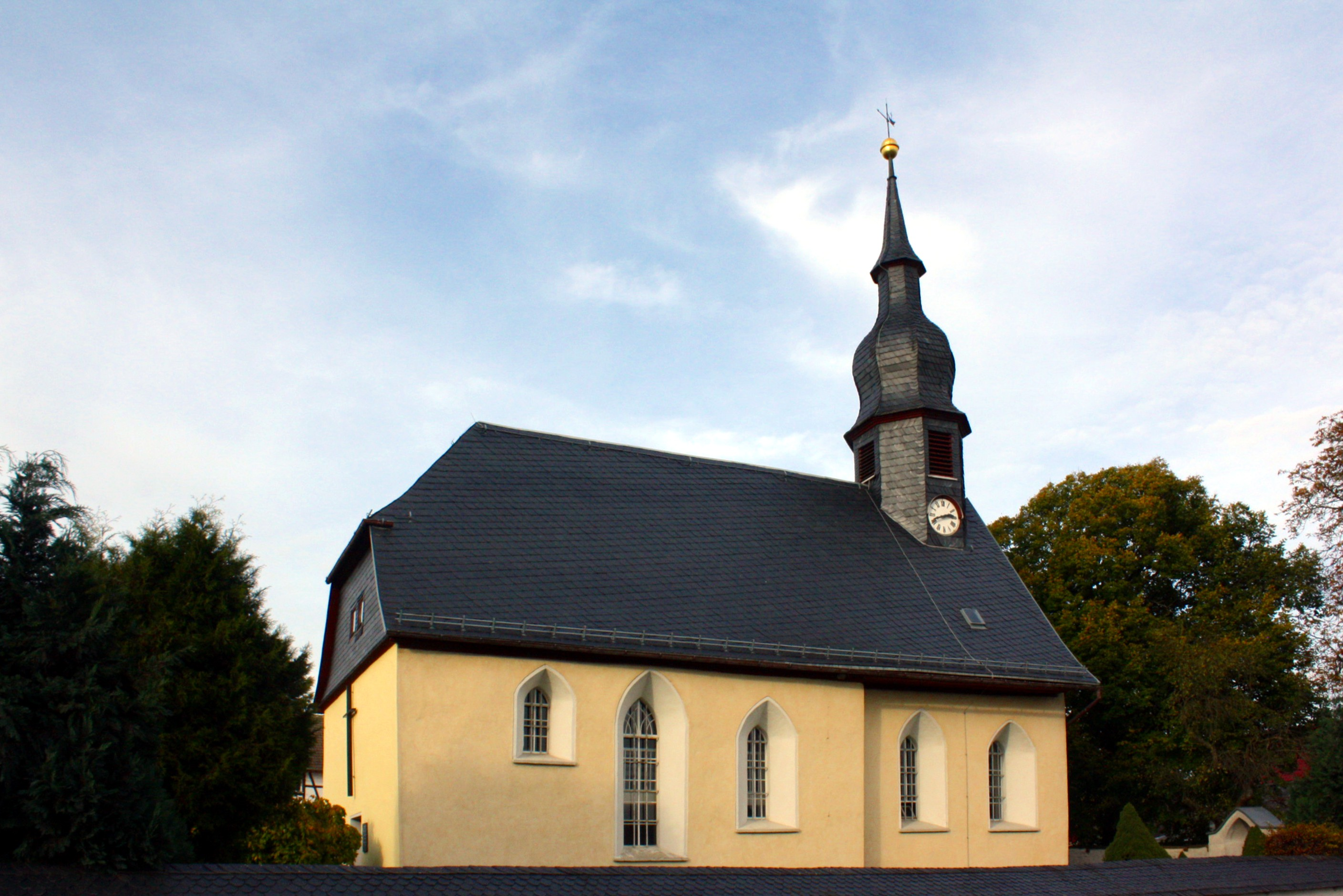 Church in Dittersdorf-Dragensdorf near Schleiz/Thuringia